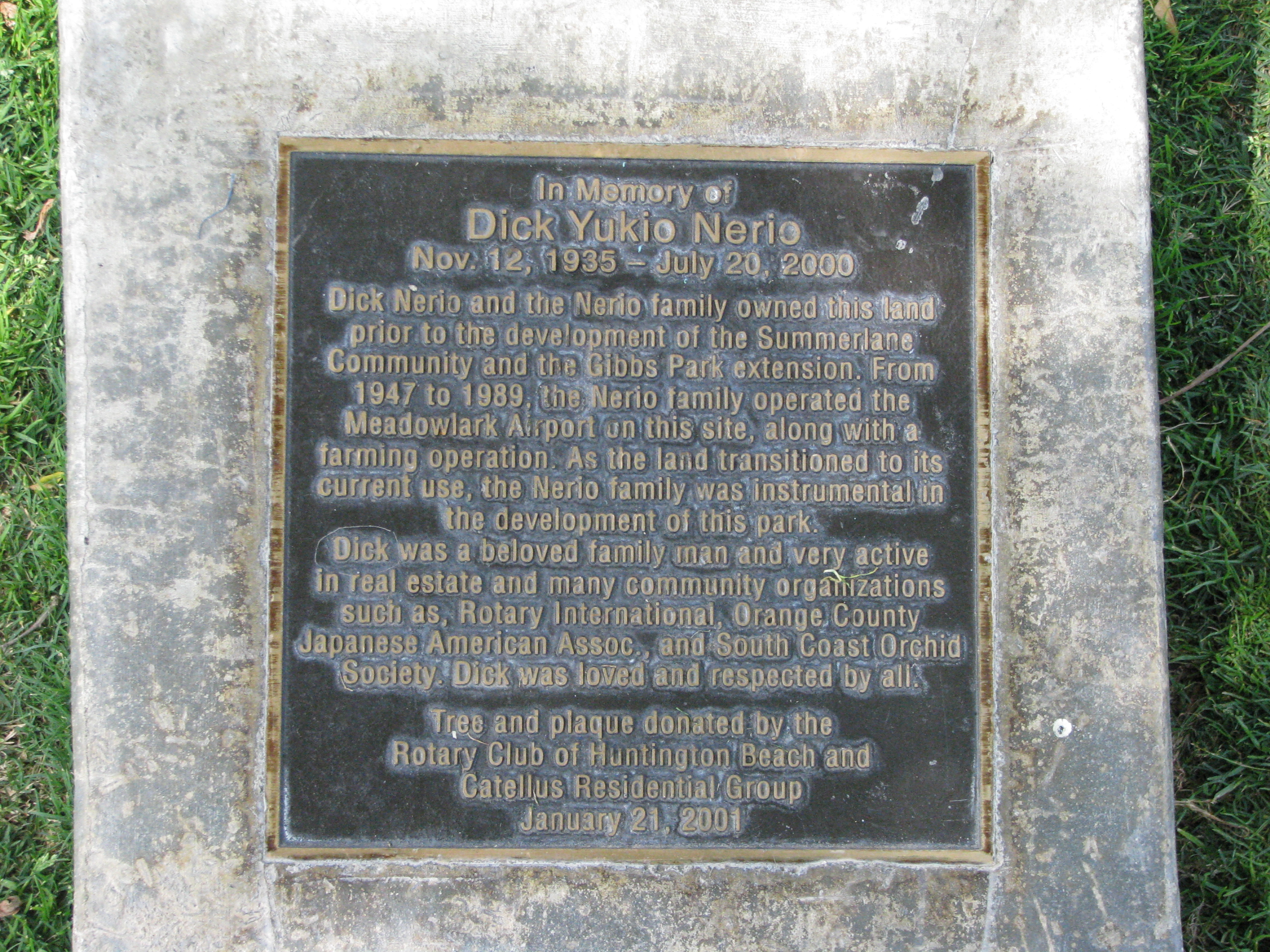 Meadowlark Airport sign reading: In memory of Dick Yukio Nerio Nov. 12, 1935-July 20,2000Dick Nerio and the Nerio family owned this land prior to the development of the Summerlane Community and the Gibbs Park extension. From 1947 to 1989, the Nerio family operated the Meadowlark Airport on this site, along with a farming operation. As the land transitioned to its current use, the Nerio familty was instrumental in the development of this park.Dick was a beloved family man and very active in real estate and many community organizations such as, Rotary International, Orange County Japanese American Assoc., and South Coast Orchid Society. Dick was loved and respected by all. Tree and plaque donated by the Rotary Club of Huntington Beach and Catellus Residential Group January 21, 2001